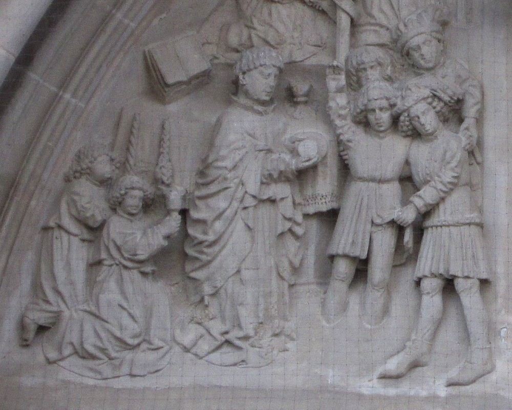 Miracle of Seefeld Tirol